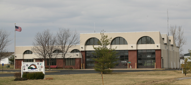 Valmeyer City Hall. This is the new facility that was built after the town was relocated 2 miles up on the bluff from the town that was destroyed during the Great Flood of 1993.